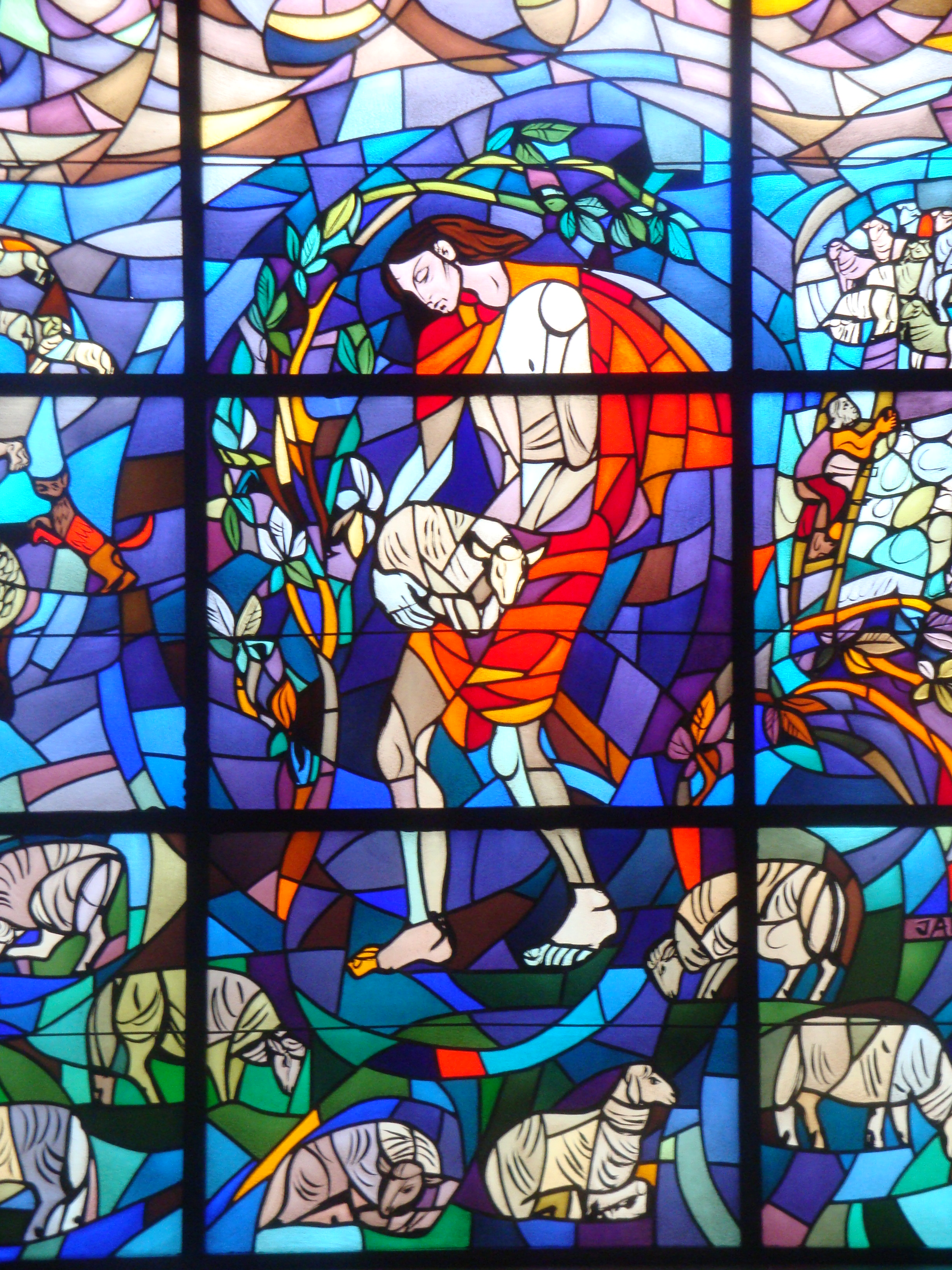 Kościół Matki Bożej Nieustającej Pomocy w Tarnobrzegu-Serbinowie